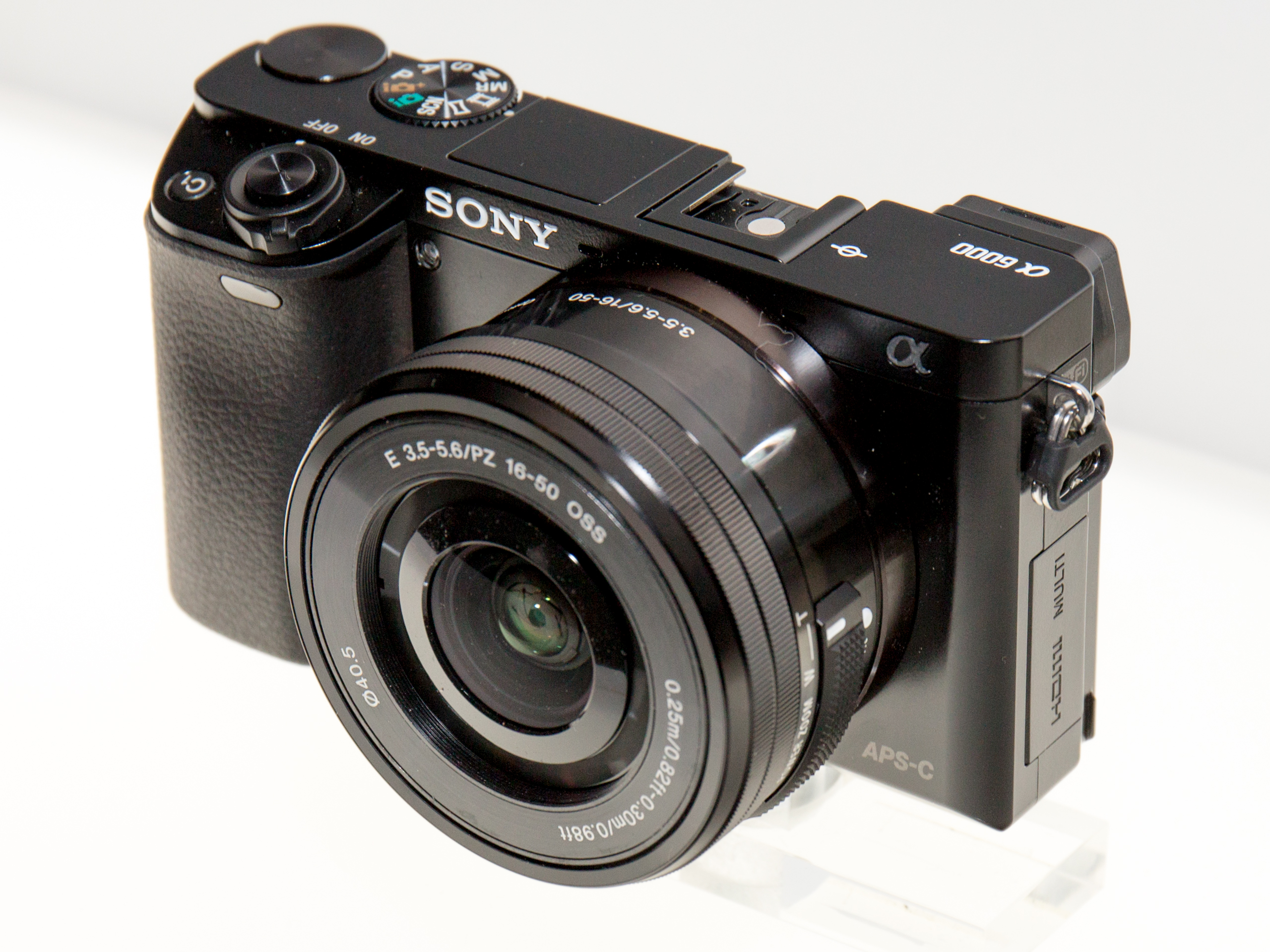 CP+ 2014: 2014 Sony Alpha 6000